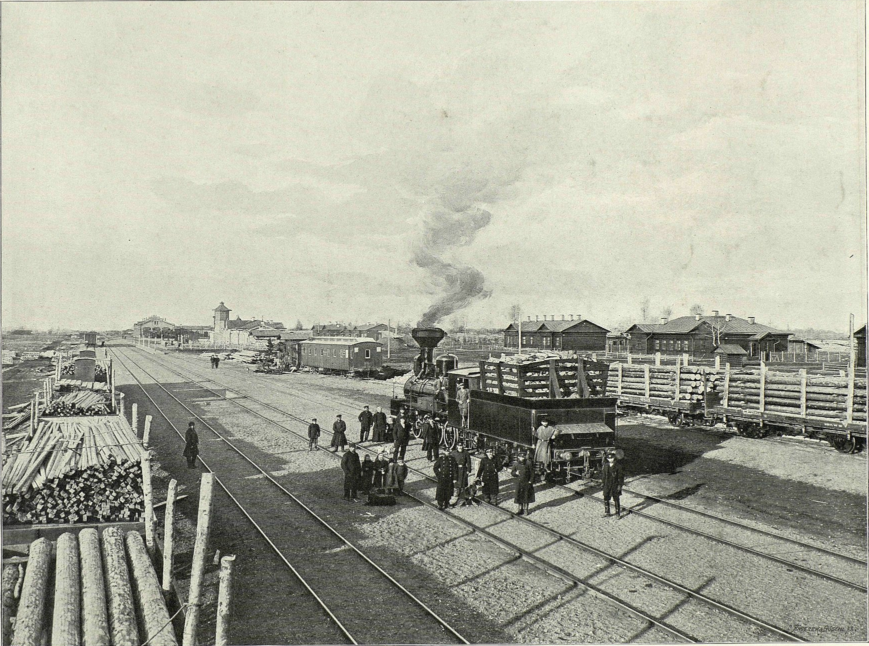 «Great Path - Views of Siberia and Great Siberian Railway» book, 1899